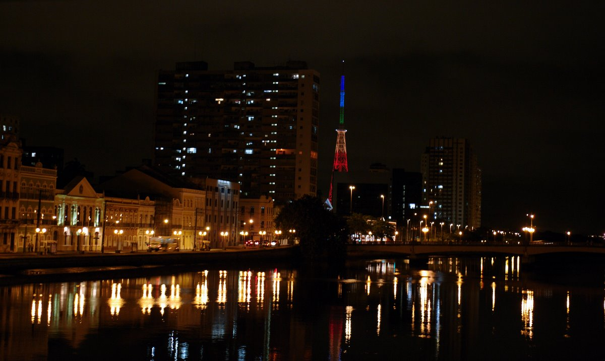 Aurora Street - Recife, Pernambuco, Brazil